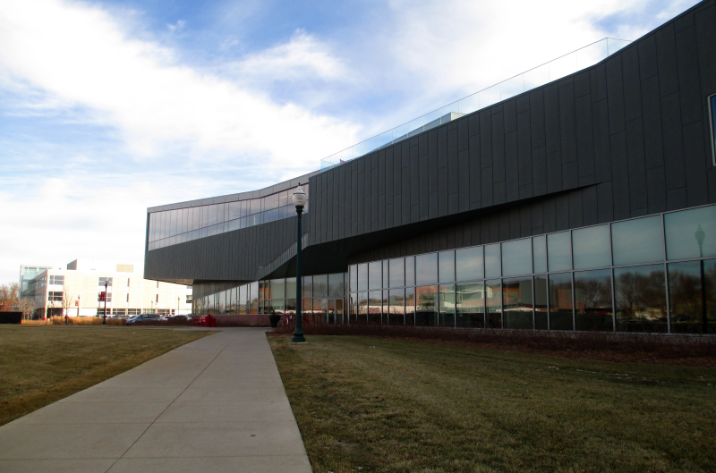 The University of South Dakota's Beacom School of Business. The business school is home to a variety of business related courses. An south eastern facing picture of the north entrance.